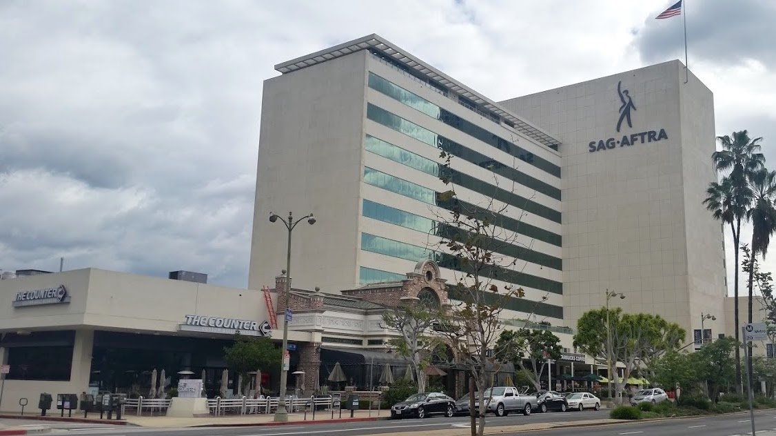 SAG-AFTRA, 5757 Wilshire Blvd, Los Angeles, CA 90036